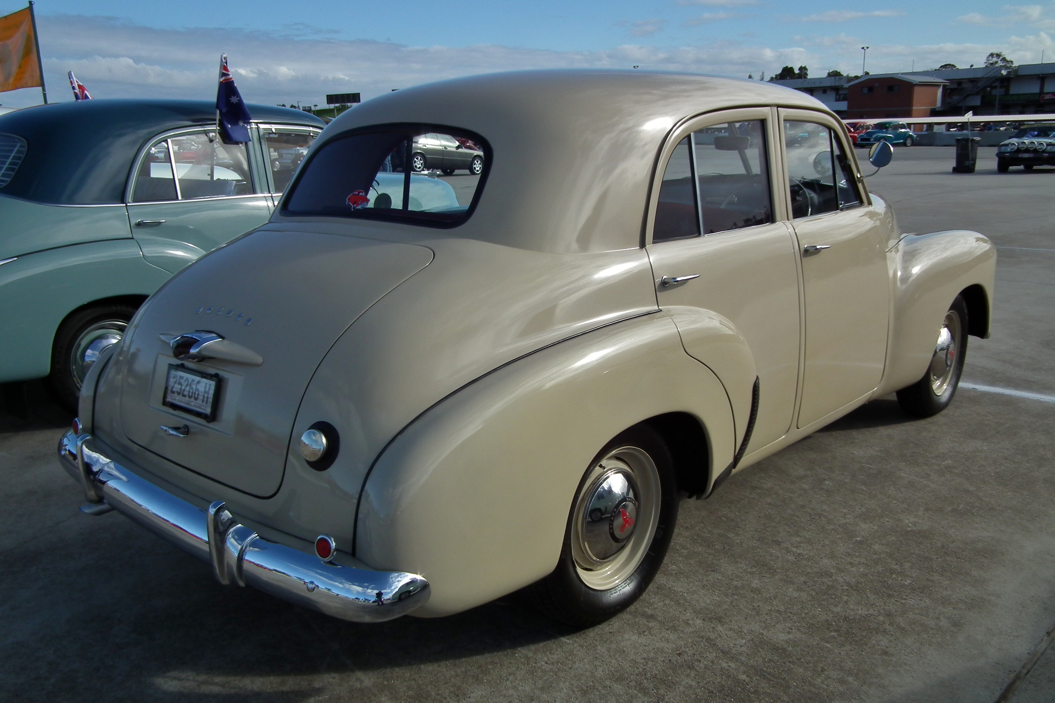 1951 Holden 48-215 (FX) sedan. Taken at Shannon's Eastern Creek Classic 2011, held at Eastern Creek Raceway Sydney.